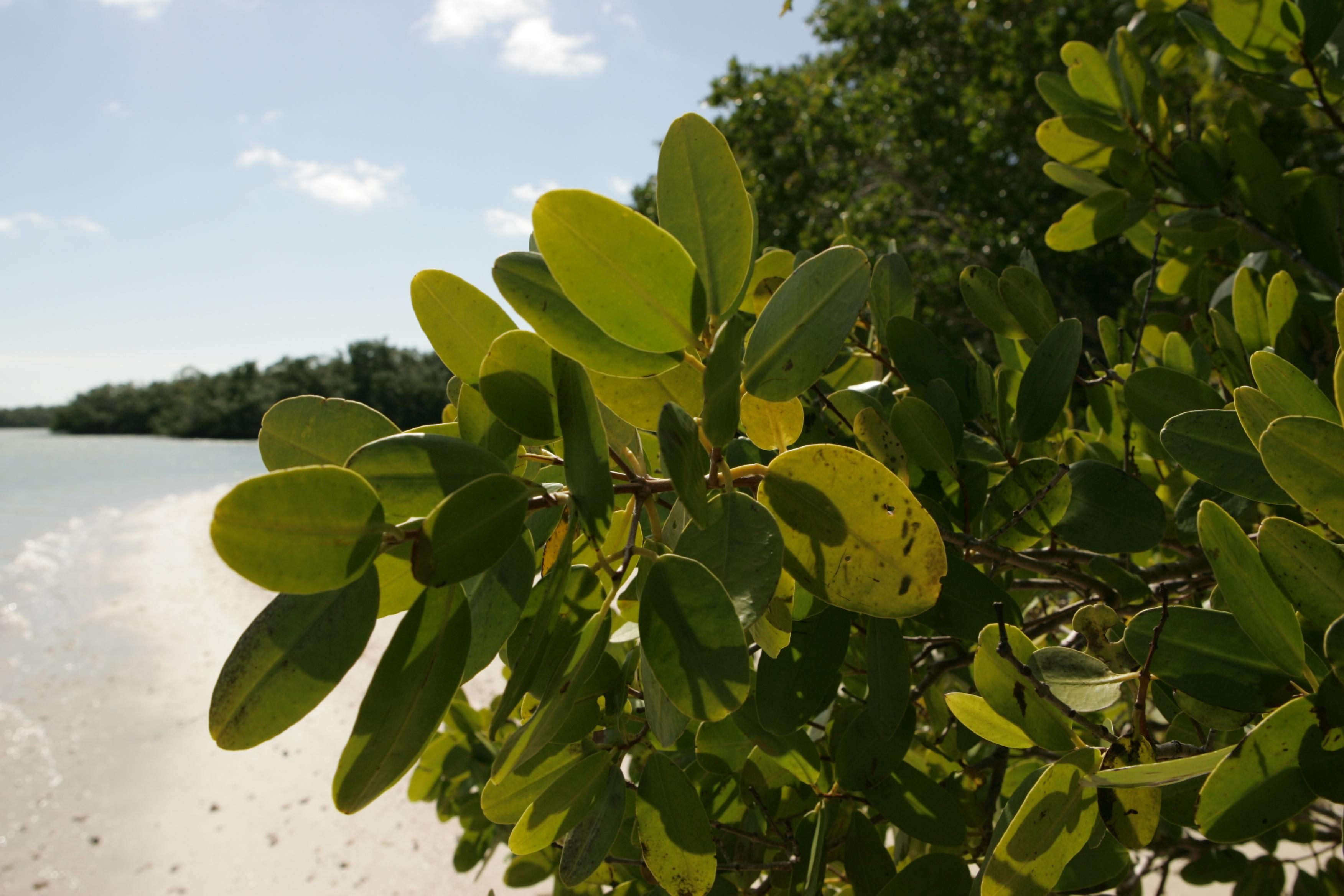 According to USFWS, it is R. mangle in Florida Image title: Close view of red mangrove leaves Image from Public domain images website